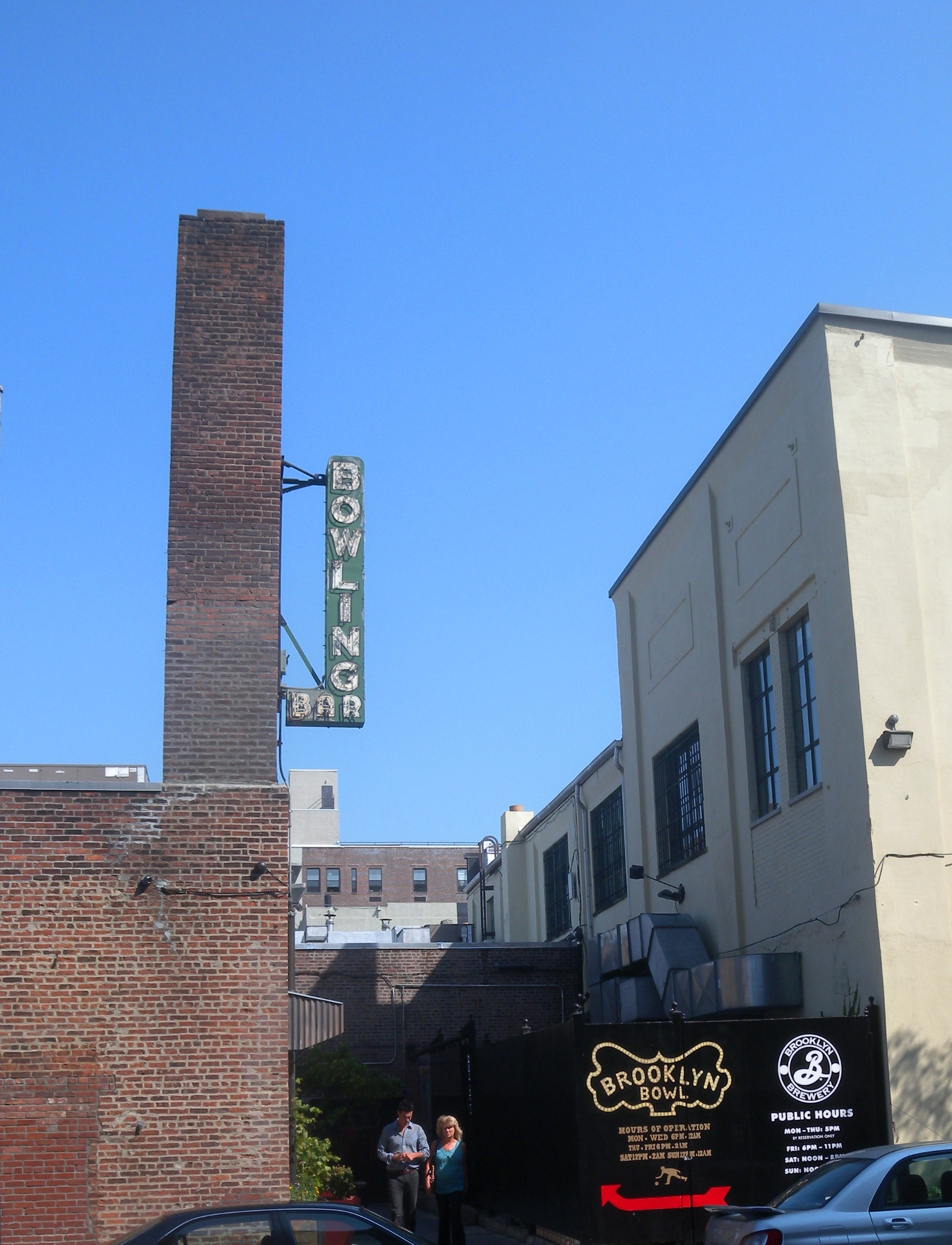 Looking southeast across Wythe Avenue at Brooklyn Bowl on a sunny afternoon.